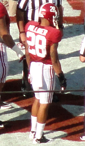 Alabama Crimson Tide cornerback DeMarcus Milliner at the pregame coin toss before their game against Florida Atlantic at Bryant–Denny Stadium in Tuscaloosa, Alabama.